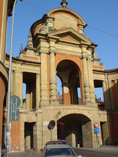 The Meloncello Ark (Bologna), which surpasses Saragozza street heading to the Sanctuary of San Luca